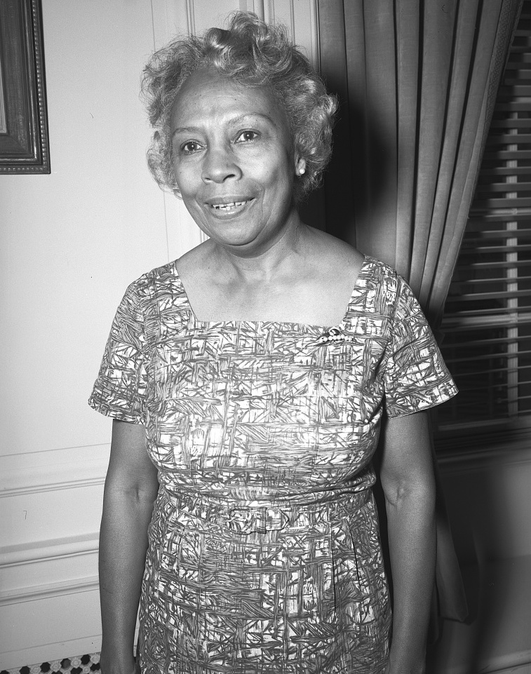 Photograph shows Dorothy B. Porter, an African American librarian and curator at Moorland-Spingarn Research Center at Howard University, probably at the Library of Congress.